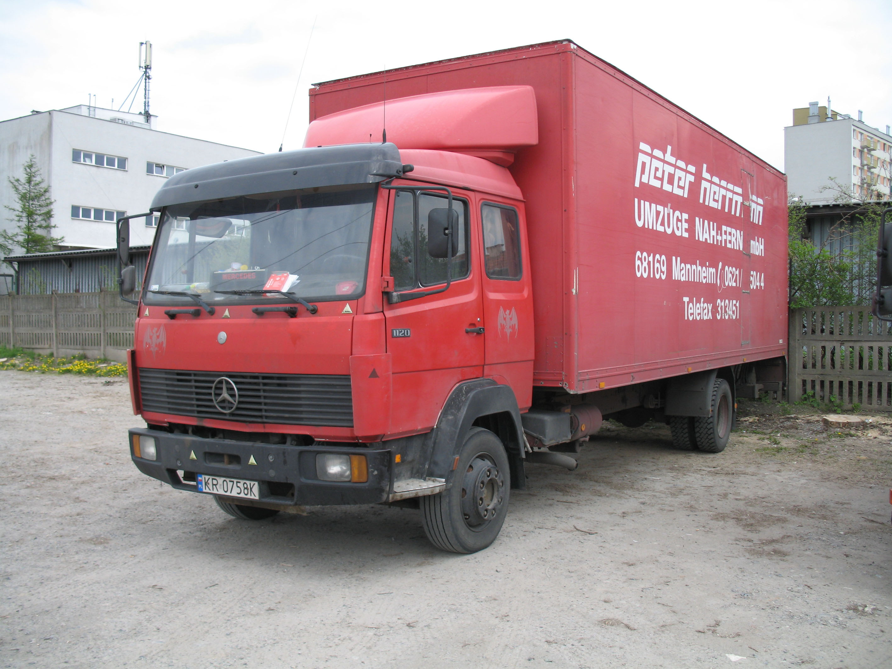 Mercedes-Benz 1120 truck in Kraków, Poland.